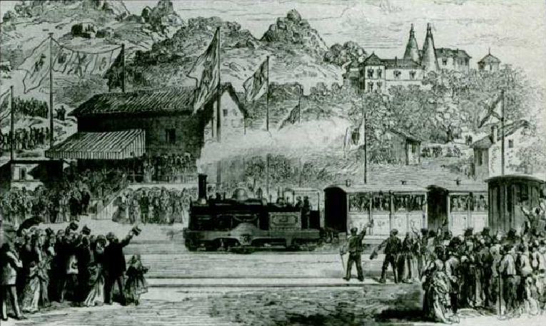 Inauguration of the Larmanjat railway at Sintra, in Portugal, on the 2nd of July 1873.